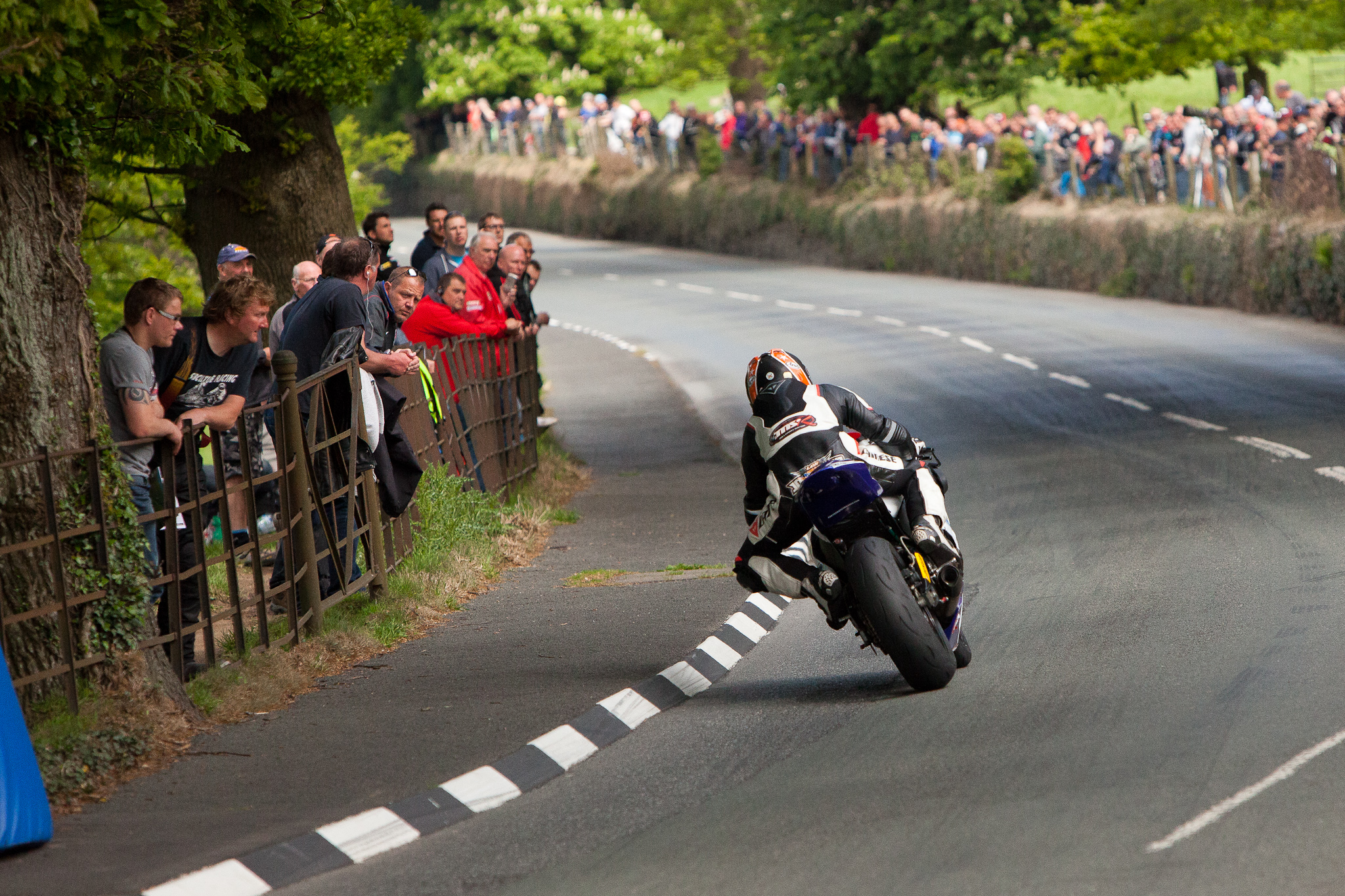 Superstock TT 2013 at Lezayre Isle of Man TT 2013 - Superstock